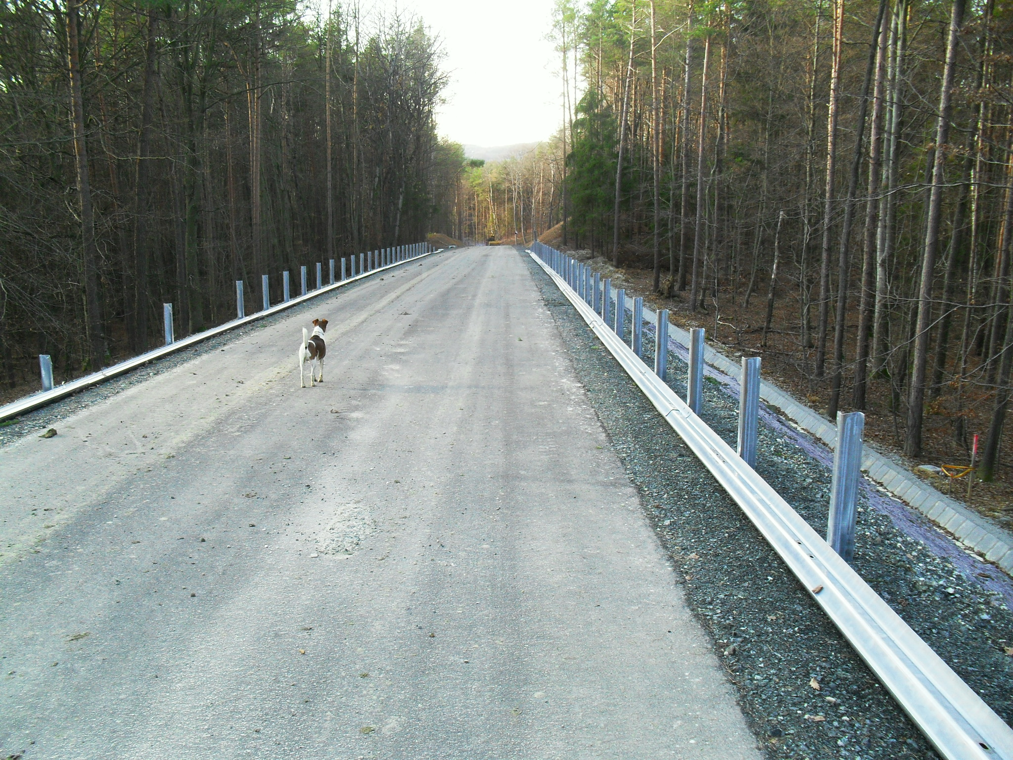 The ending works of the Mass Road in Ritkaháza (Kétvölgy), Vendvidék, Hungary